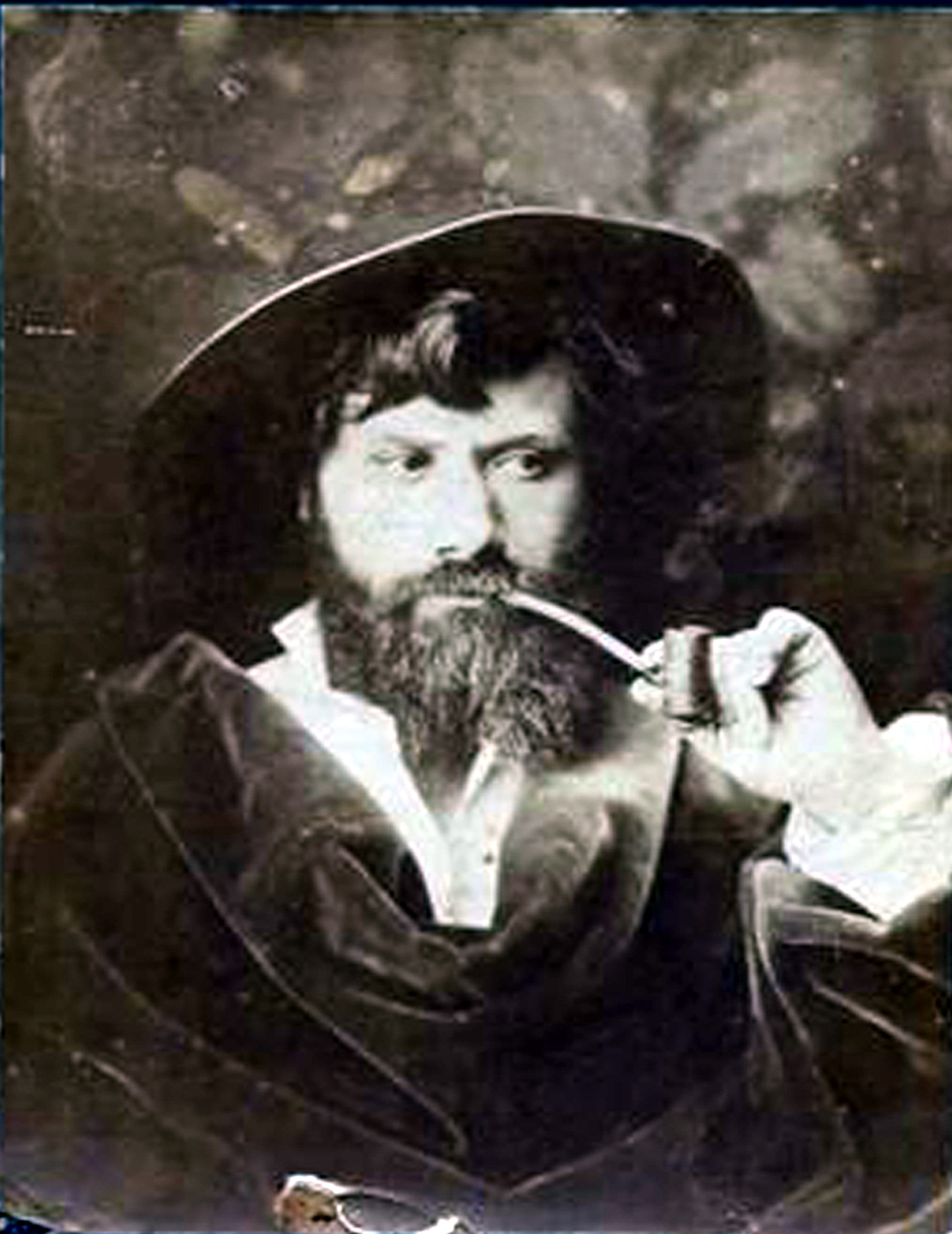 Presumed portrait of Théophile Barrau, from a family album given [where ?] by his granddaughter Janine Flanet-Carles.